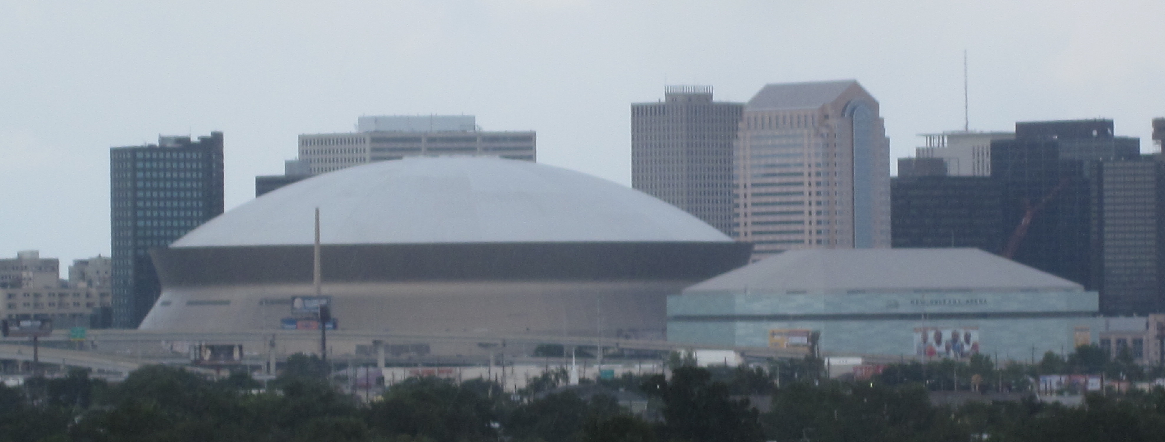 New Orleans: View towards Central Business District from Oschner Baptist Hospital parking garage Uptown, showing Louisiana Superdome and the New Orleans Arena.